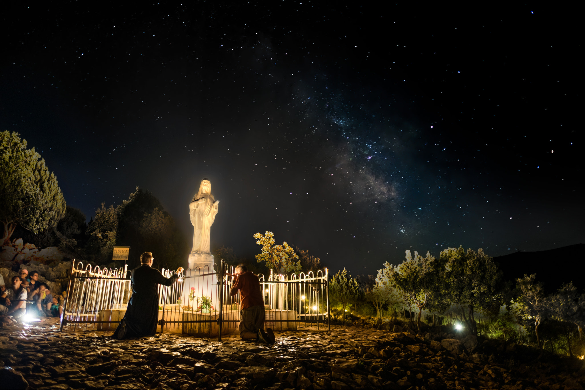 500px provided description: Multiple exposure [#people ,#night ,#mystery ,#milky way ,#prayer ,#christianity ,#catholicism ,#Astrophotography ,#Medjugorje ,#Podbrdo]